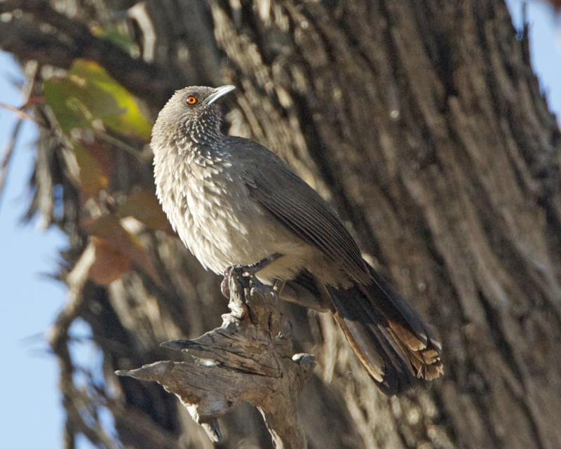 Hartlaub's babbler Turdoides hartlaubii ssp Turdoides hartlaubii griseosquamata Letshêganôga Location: Moremi, Botswana Date: 7th. August 2011 Distribution: ssp: 690V3432